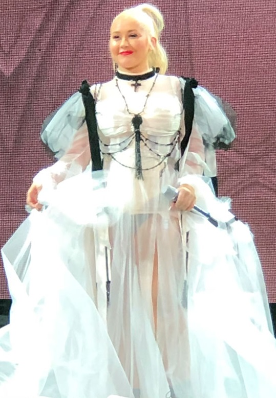 American recording artist Christina Aguilera performing "Unless It's With You". The performance took place at the Pepsi Center in Denver, Colorado, on October 19, 2018.